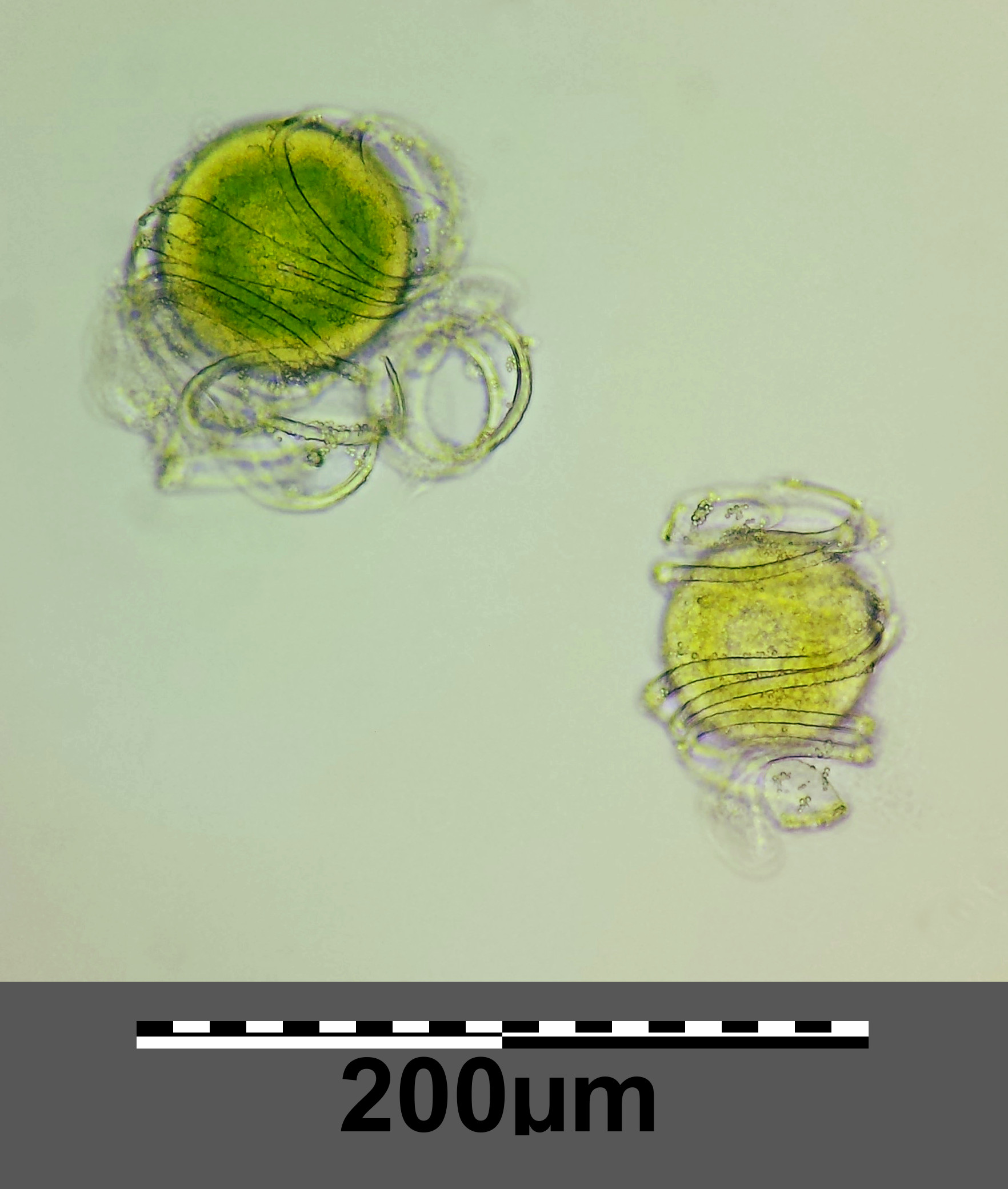 Spores Taxonym: Equisetum arvense subsp. arvense ss Fischer et al. EfÖLS 2008 ISBN 978-3-85474-187-9 Location: Jedlersdorf rail station, Vienna-Floridsdorf - ca. 160 m a.s.l. Habitat: ballast